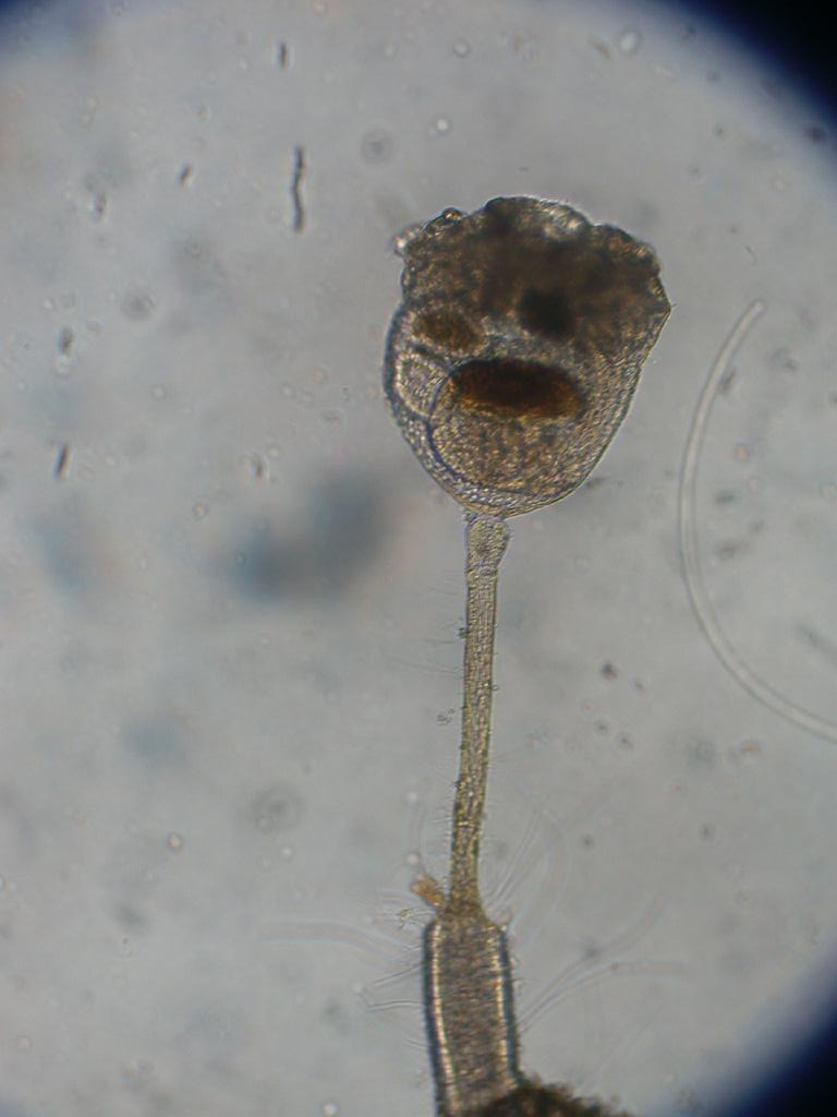 Barentsa discreta (Entoprocta: Barentsiidae). Photo taken in Tanabe city (Wakayama prefecture, Japan).